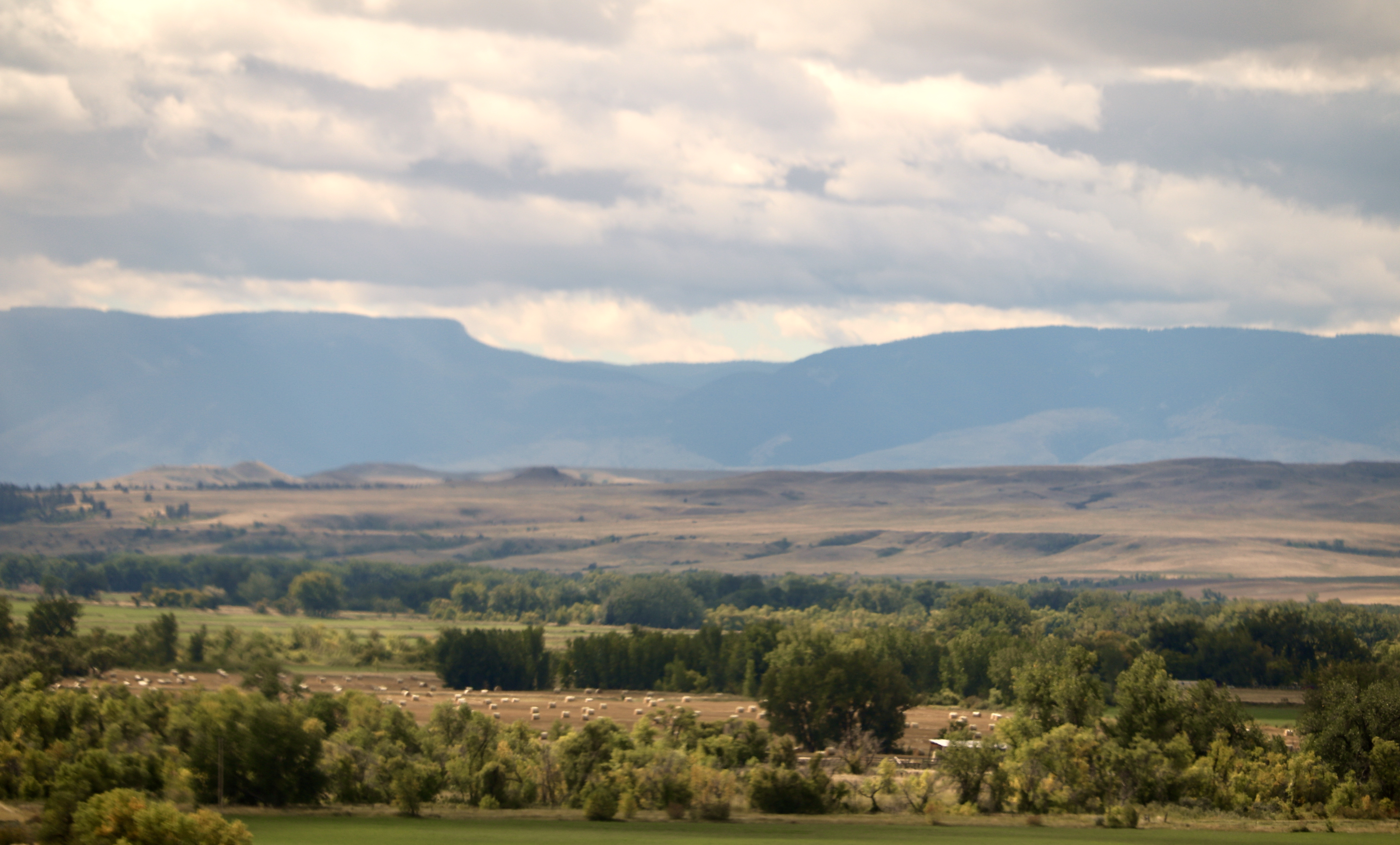 Images taken from Interstate 90 on the Crow Indian Reservation, Big Horn County, Montana, in the Crow Agency/Lodge Grass area